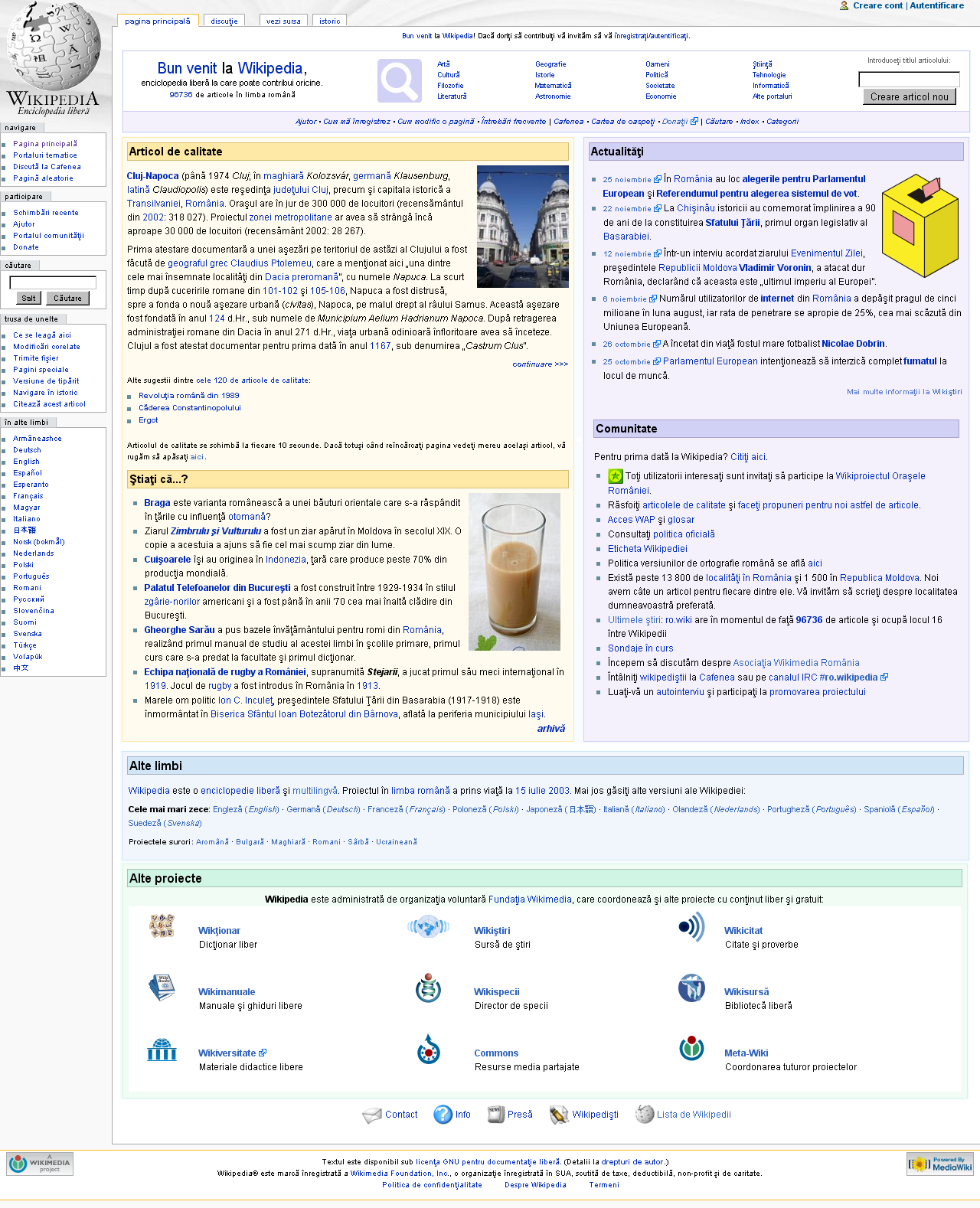 Screenshot of the Romanian Wikipedia on November 25th, 2007.